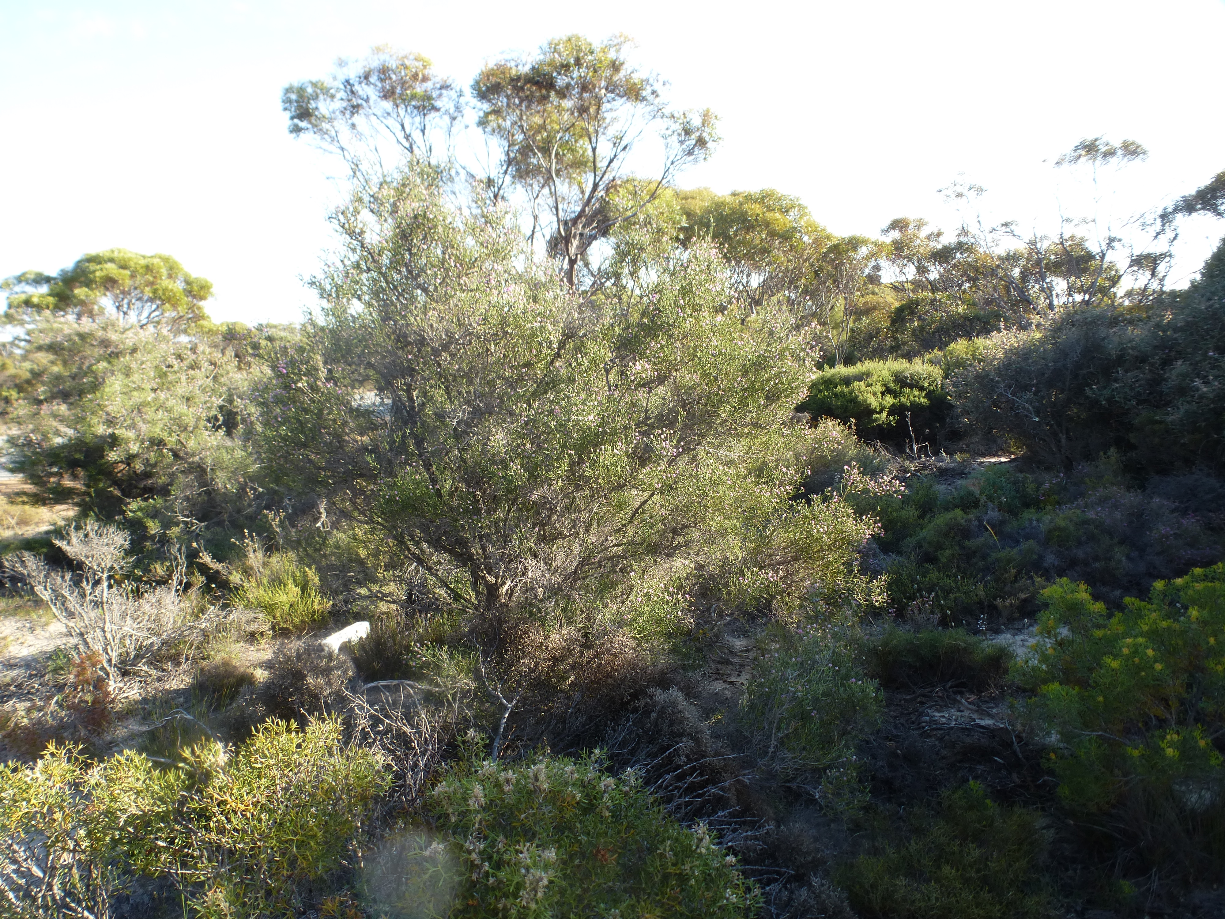 Regelia cymbifolia growing 5 km E of Tarin Rock